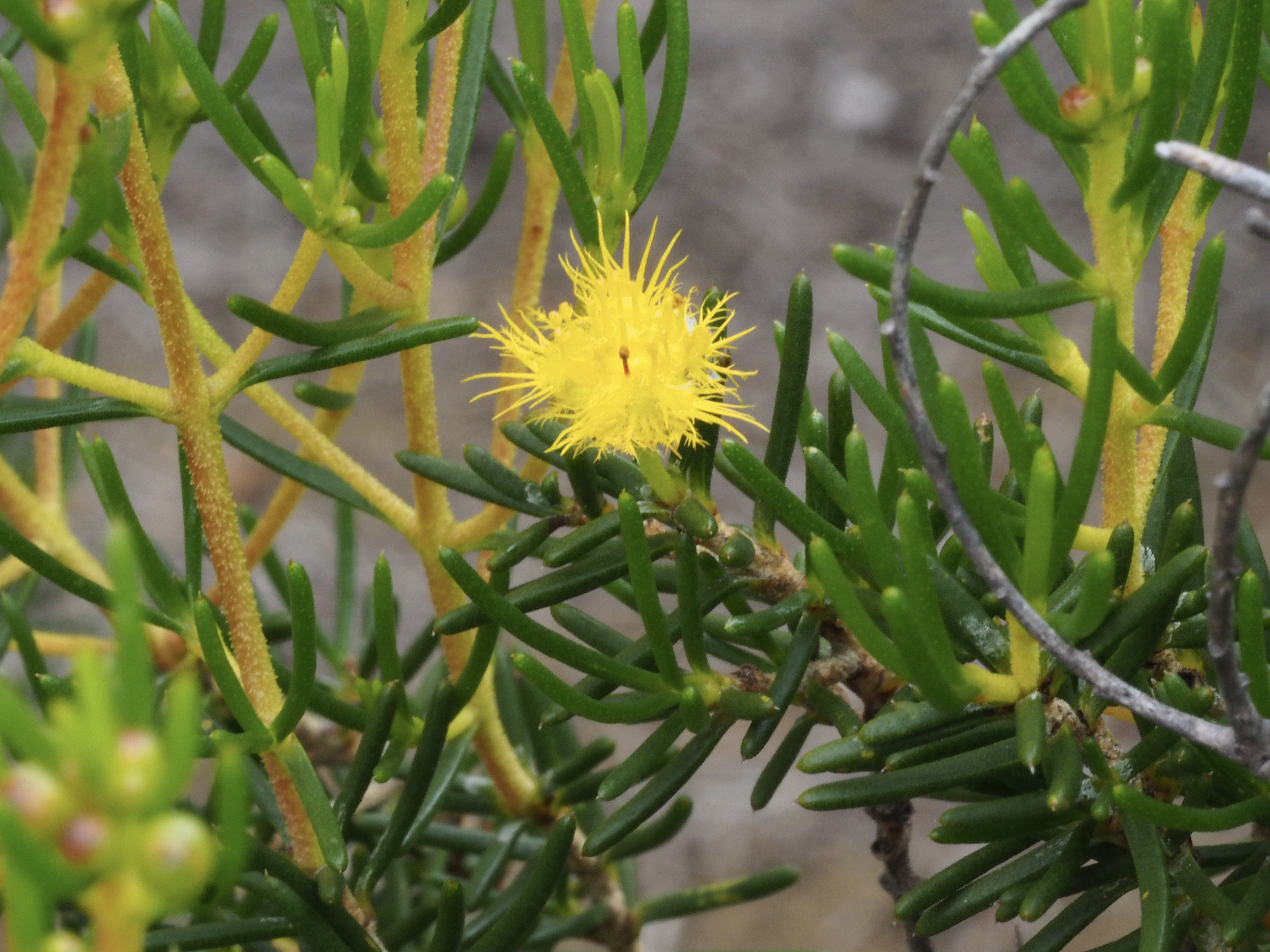 Verticordia chrysantha growing in Howatharra Nature Reserve